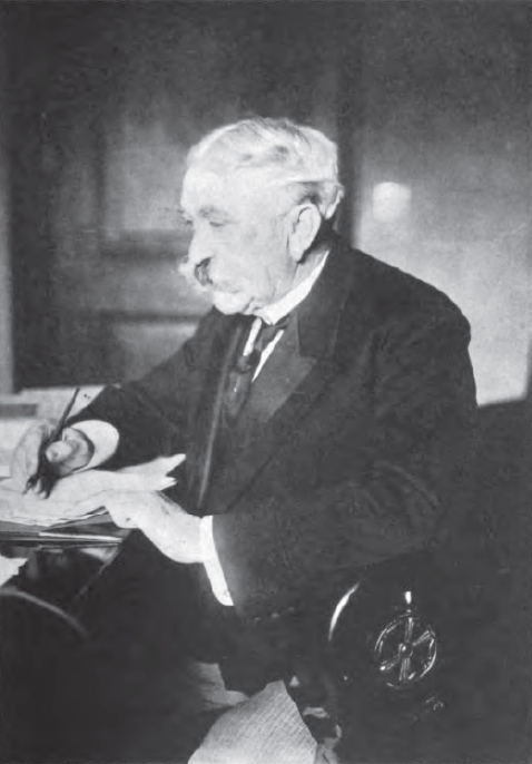 United States Senator Marcus Aurelius Smith from Arizona